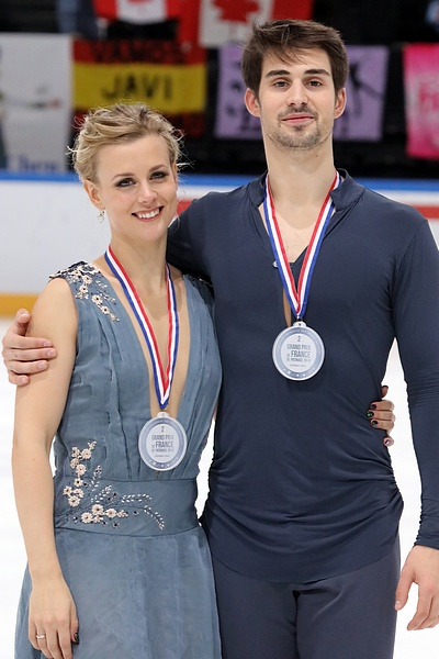 Madison Hubbell and Zachary Donohue at the 2016 Trophée de France - Awarding ceremony